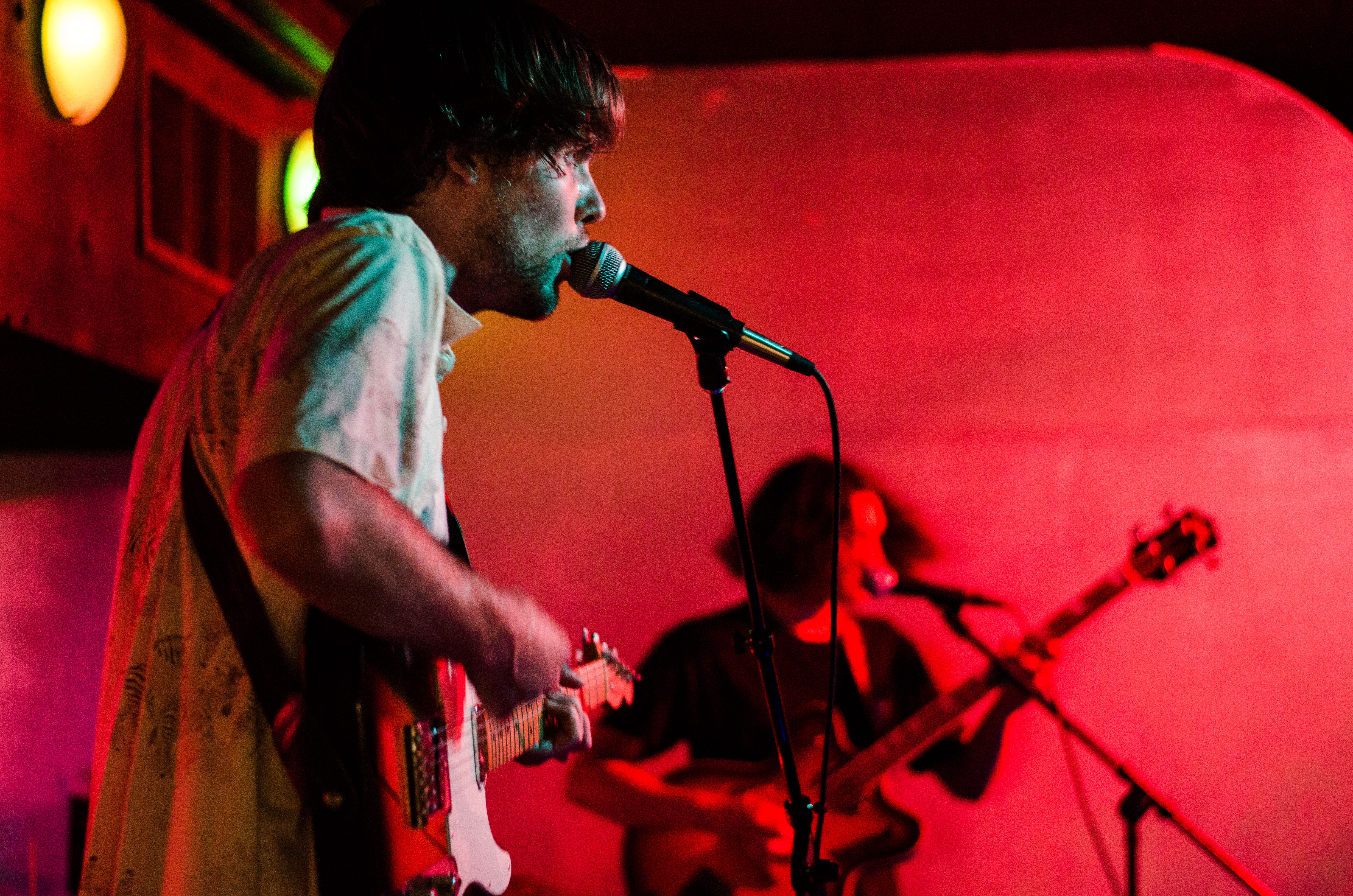 Heaters in concert